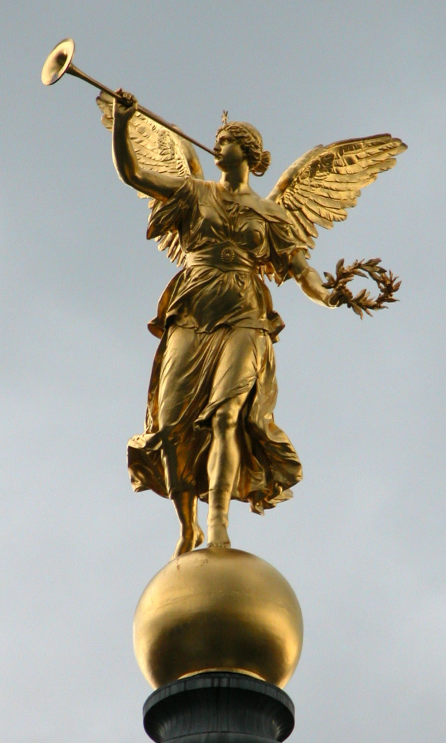 Sculpture of Pheme/Fama on the roof of the Dresden University of Visual Arts. It was sculpted by Robert Henze, it stands on the Brühl's Terrace.